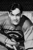 Thomas Edward "Ted" Hibbert wearing the team jersey of the Olympic gold medal winning RCAF Flyers (Canada men's national hockey team 1948).